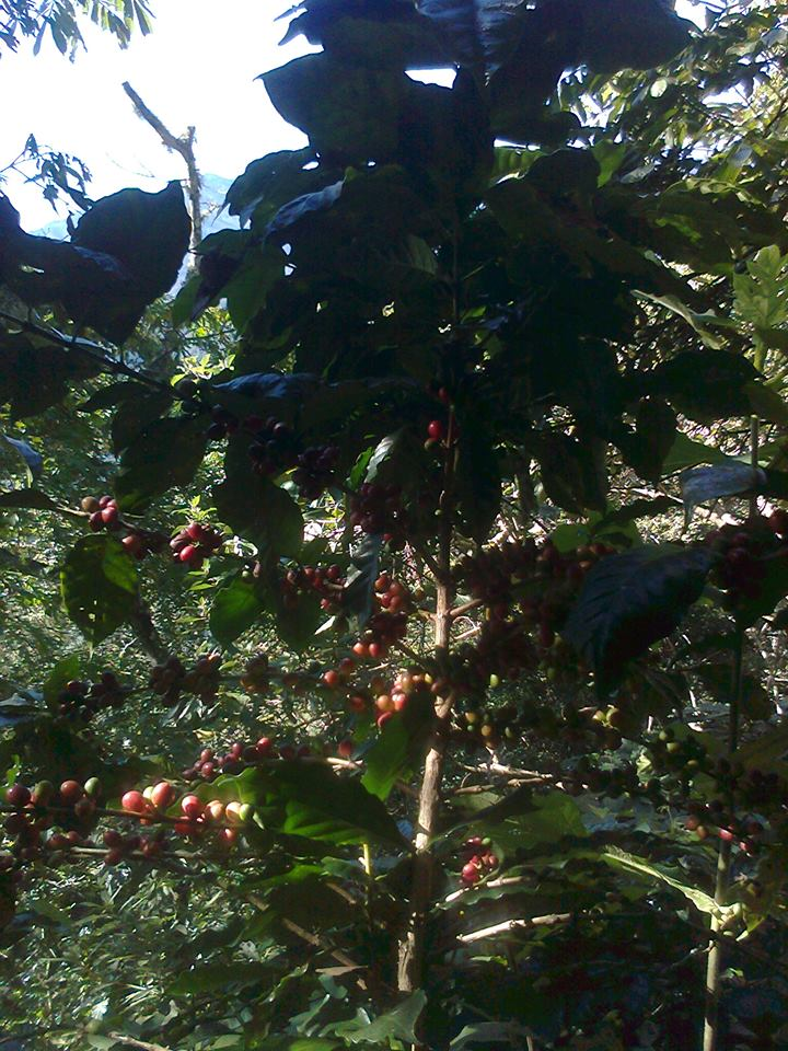 Cafe_de_moneda